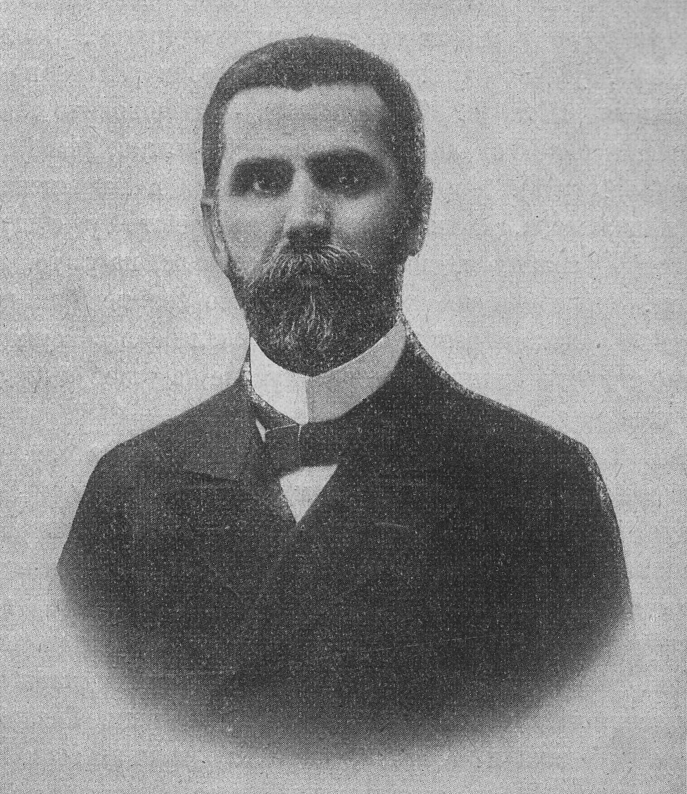 A photograph of Ljubomir Lotić (1865-1946), a Serbian teacher, writer and translator. Srpski (latinica): Fotografija Ljubomir Lotića (1865-1946), srpskog učitelja, pisca i prevodioca.